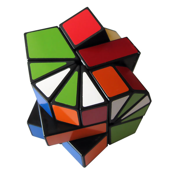 A Square-1 in a scrambled configuration. The puzzle was sold in this configuration with instructions for returning it to a cube shape from that position only. This is halfway through a turn. Note that this puzzle has an aftermarket set of stickers, but the colors and arrangement are identical to those of the original puzzle.